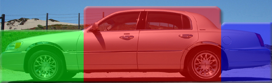 I created the image myself.